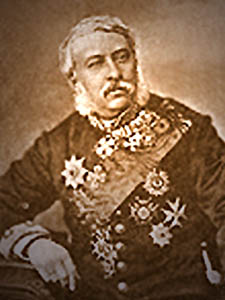 Portrait photo of Bernhard Karl von Koehne